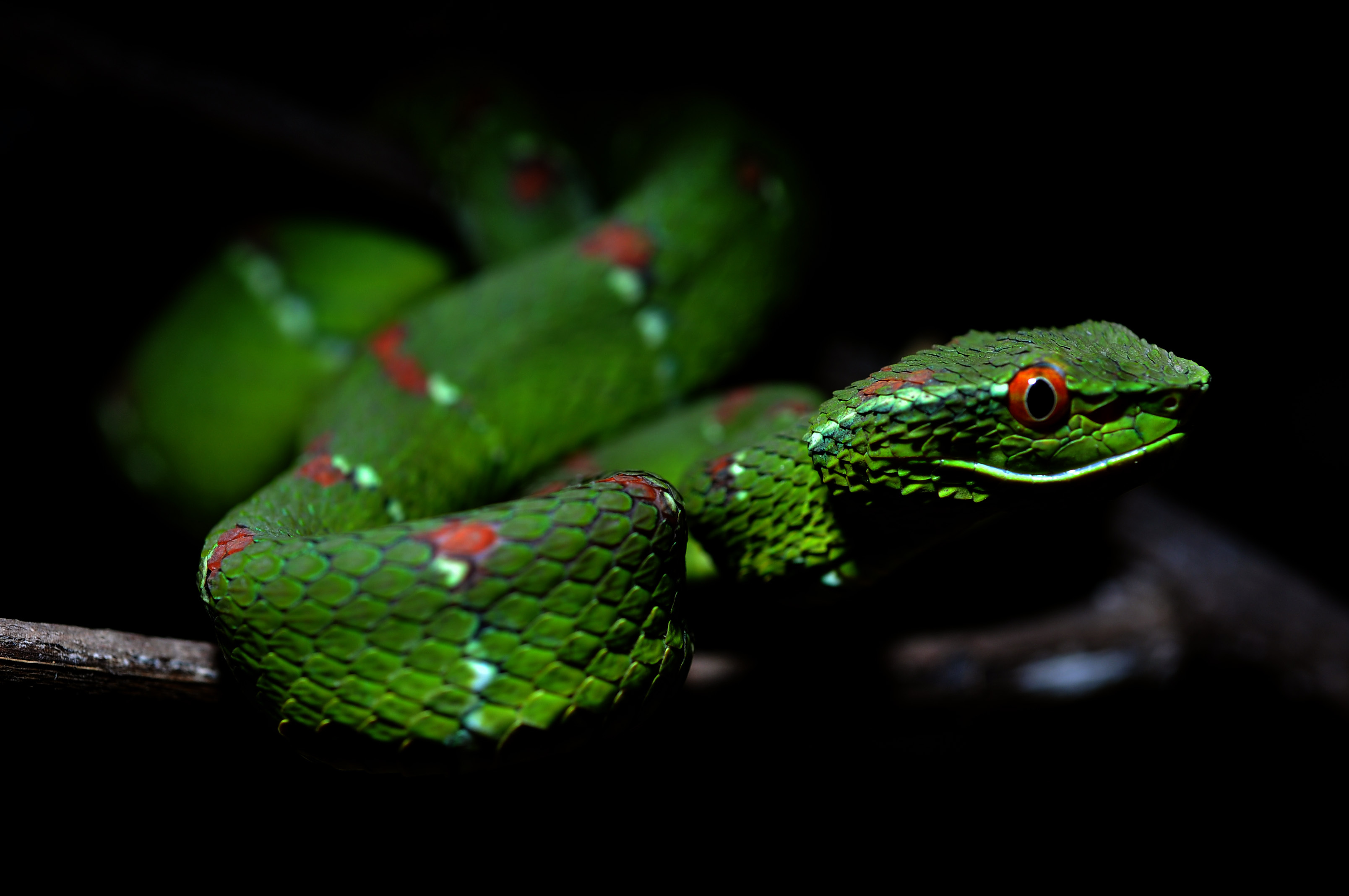 Pit viper